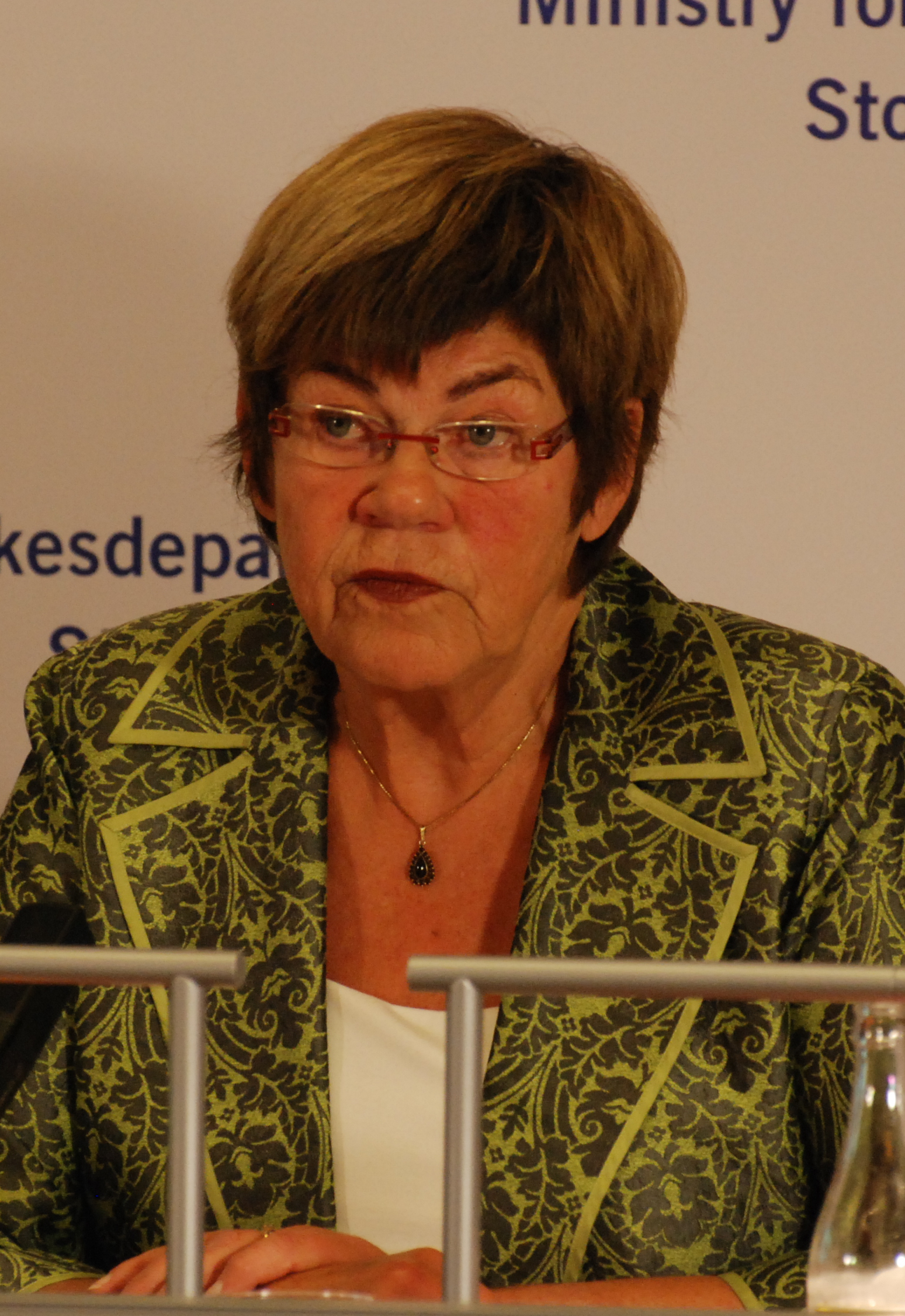 Announcement of the 30th Right Livelihood Award 2009: Marianne Andersson